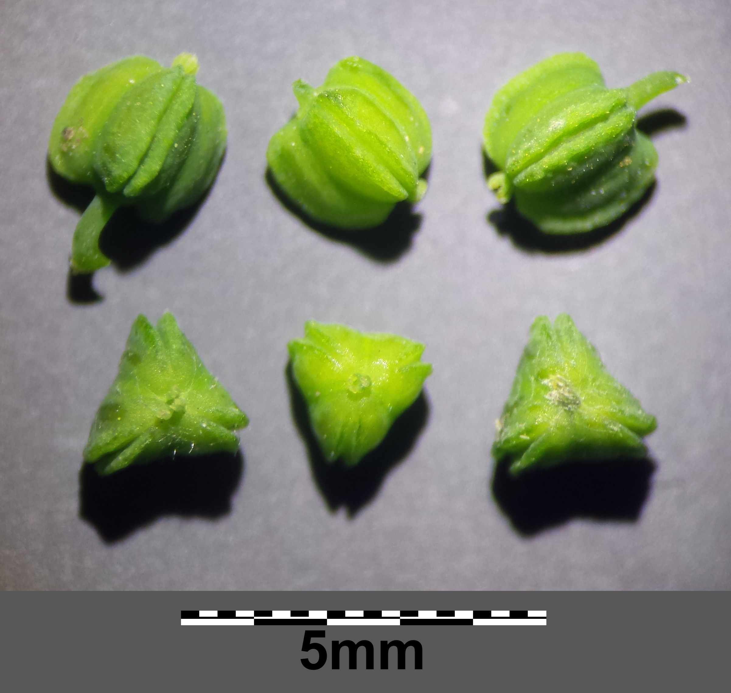 Fruits Taxonym: Euphorbia peplus (s. str.) ss Fischer et al. EfÖLS 2008 ISBN 978-3-85474-187-9 Location: Gebmanns, district Korneuburg, Lower Austria - ca. 250 m a.s.l. Habitat: ruderal area